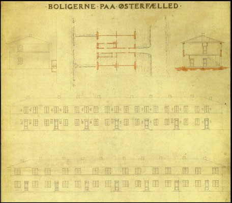 Drawing of Brumleby in Copenhagen, Denmark